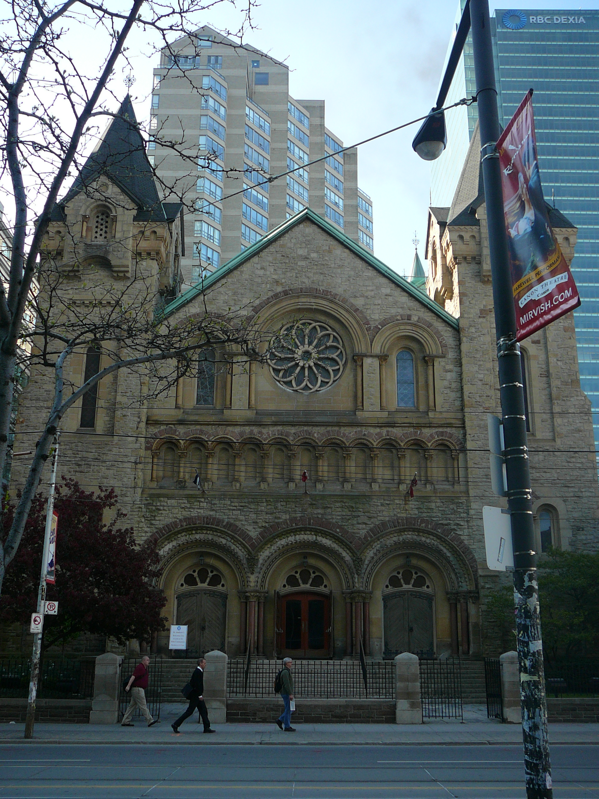 This Church, one of the oldest Presbyterian congregations in Canada, opened in 1876, replacing an earlier building in use from 1830. According to the church web site ( the building is a mix of North American sandstone, stone, and granite, coupled with imported granite from Aberdeen, Scotland. It's an impressive looking building, though as with so many of the older buildings in the downtown core, it is completely dwarfed by the neighbouring skyscrapers.